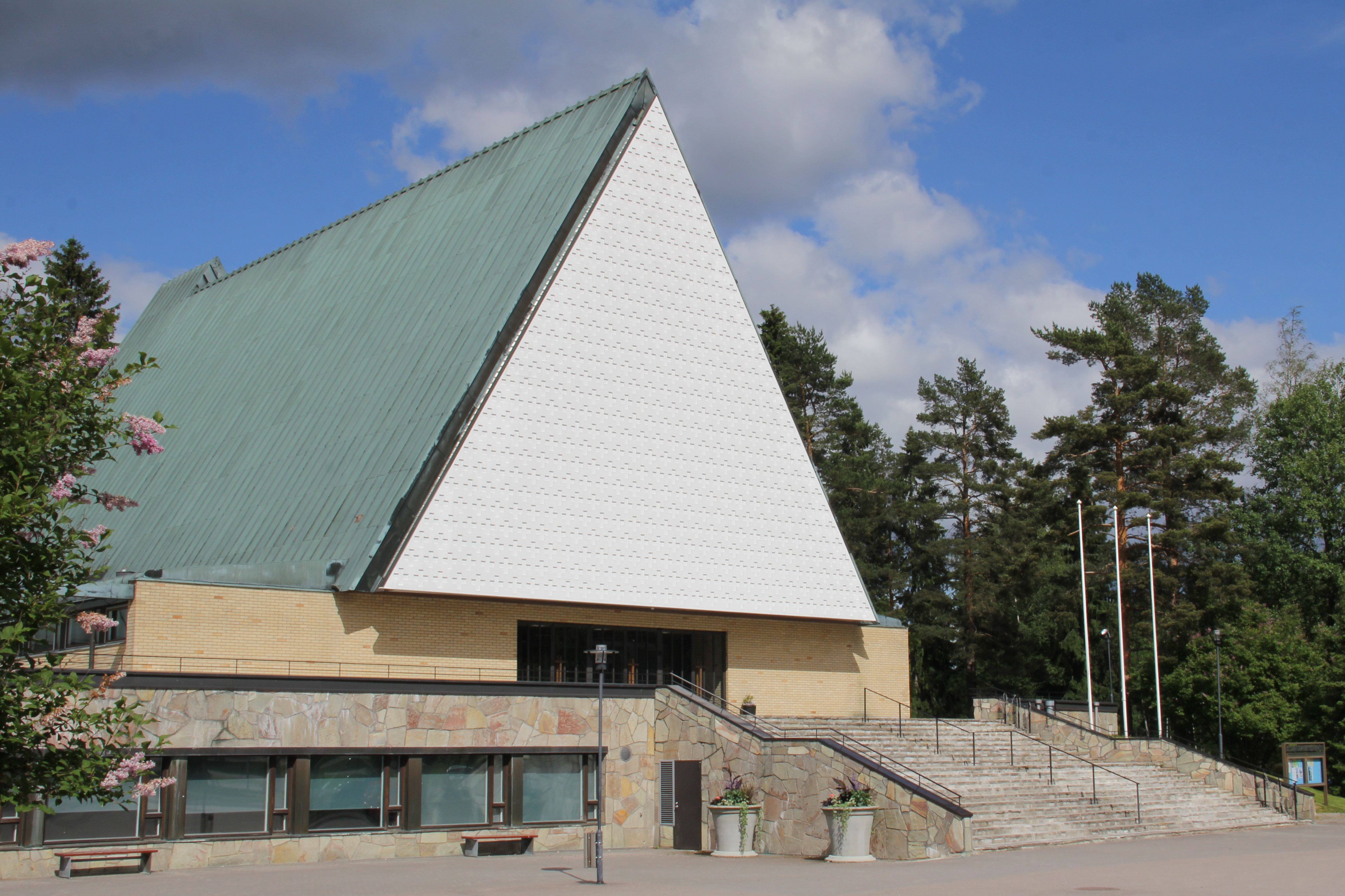 Joutjärvi church, Lahti, Finland. - Designed by architect Unto Ojonen, completed in 1962.